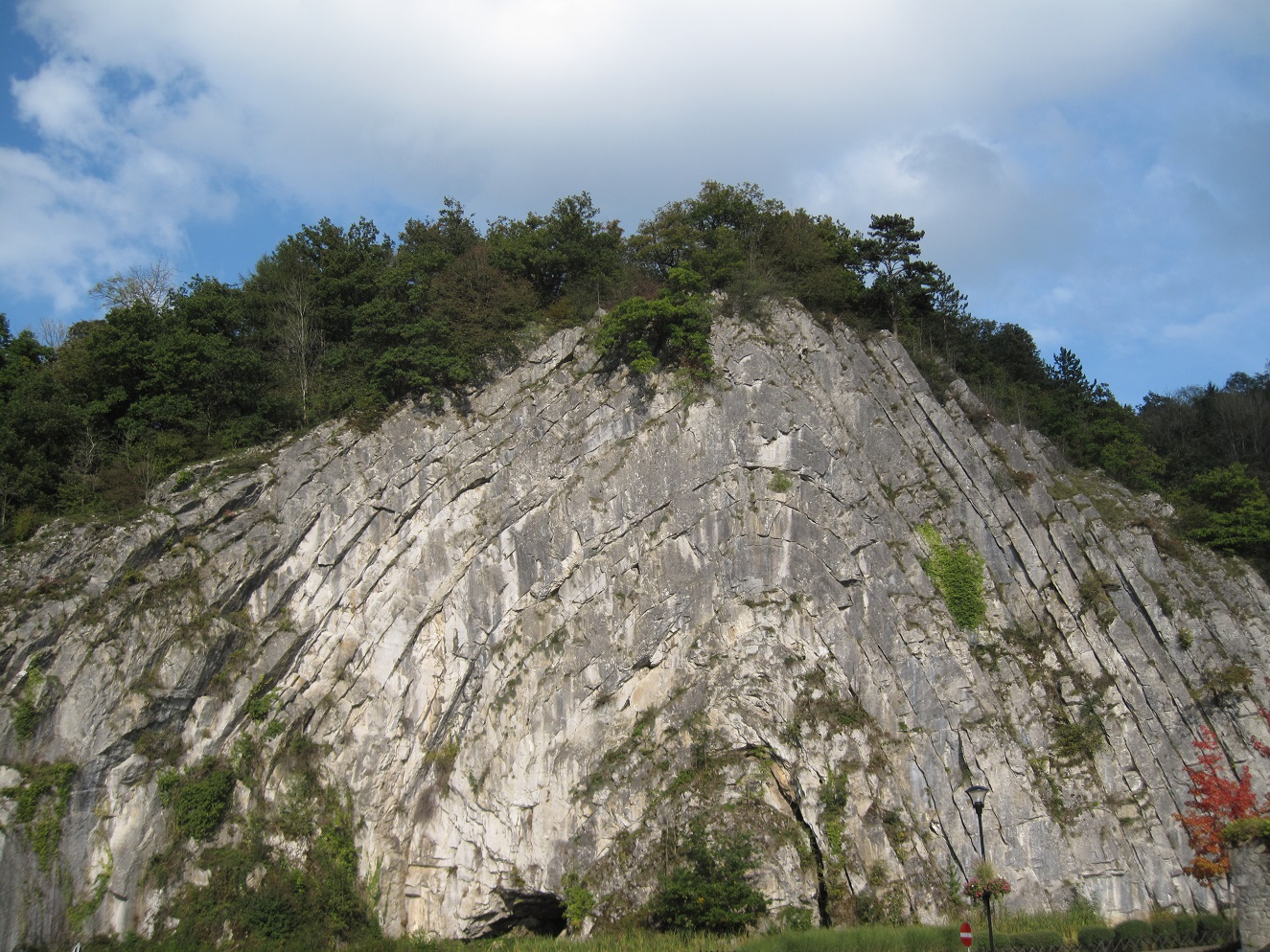 This anticline near Durbuy, known as the Rocher d'Homalius, is 300 million years old.